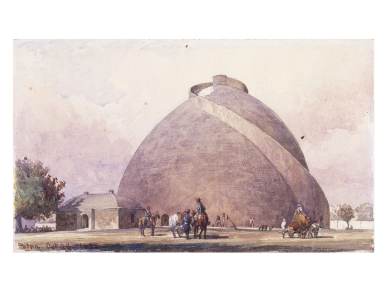 Golghar, Patna, 1888. This storage house for grain, also known as Golghar ('round house'), was built in 1786 by John Garstin at the request of the then administrator, Warren Hastings, as a safeguard against a recurrence of the terrible famine of 1770.